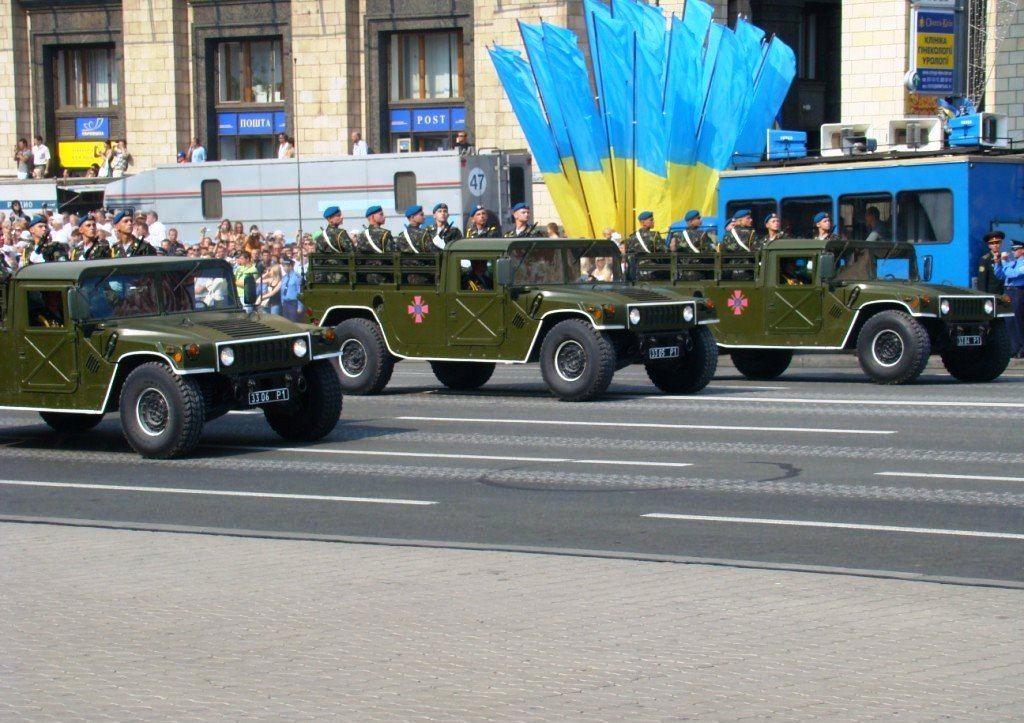 Ukrainian Humvees during the Independence Day parade in Kiev, Ukraine in 2008.